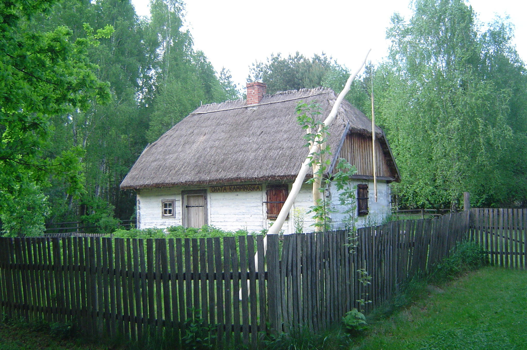 Open air museum in Granica